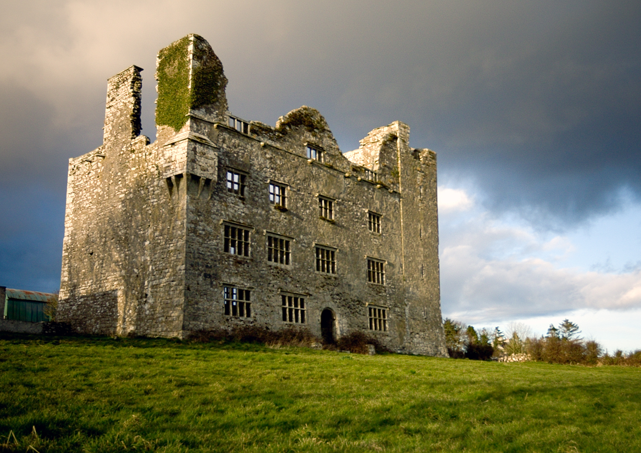 Lemaneagh Castle